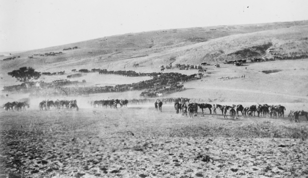 AWM caption: The queue at Jemmameh for water, the horses having gone for 69 hours without water. Ambulance horses are at the rear of the queue, they had waited from 8.30am, they were finally watered at 5.30pm.